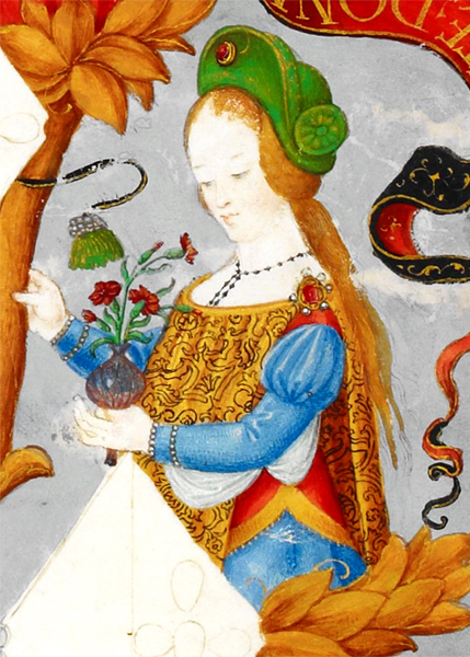 Theresa of Portugal, daughter of Afonso Henriques and countess of Flanders.